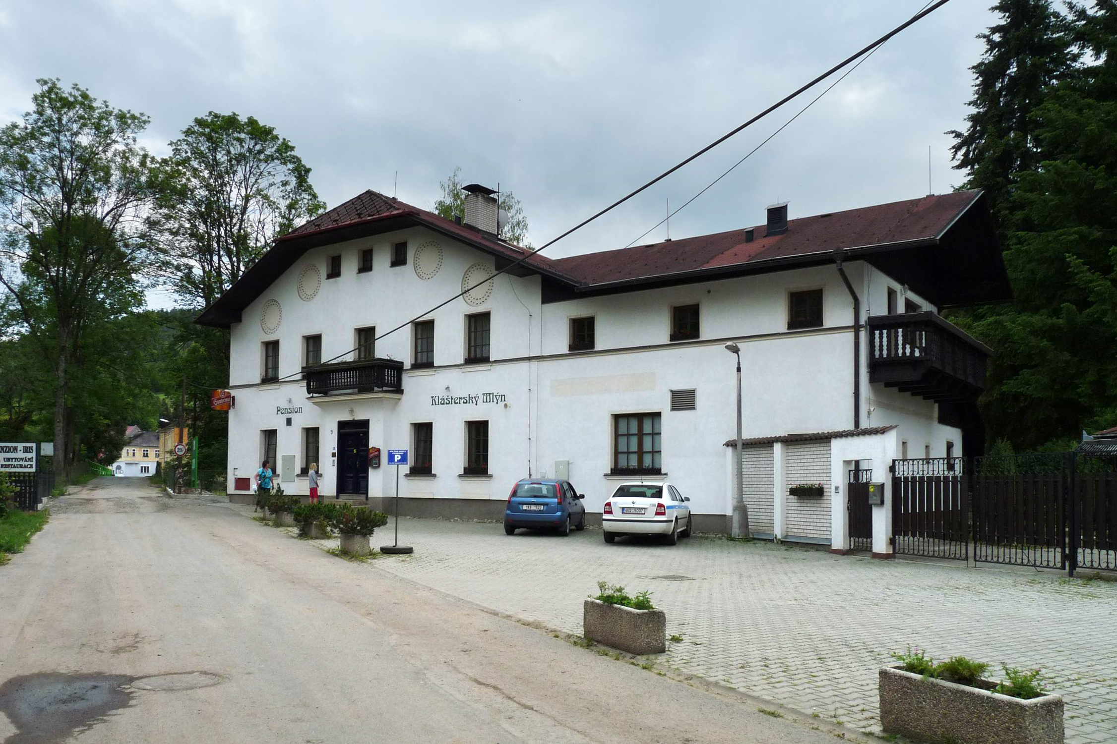 House No 9 in the village of Klášterský Mlýn, part of the town of Rejštejn, Klatovy District, Plzeň Region, Czech Republic